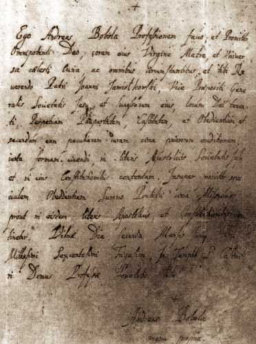 manuscript by Saint Andrzej Bobola, Polish Jesuit missionary and martyr, 1613